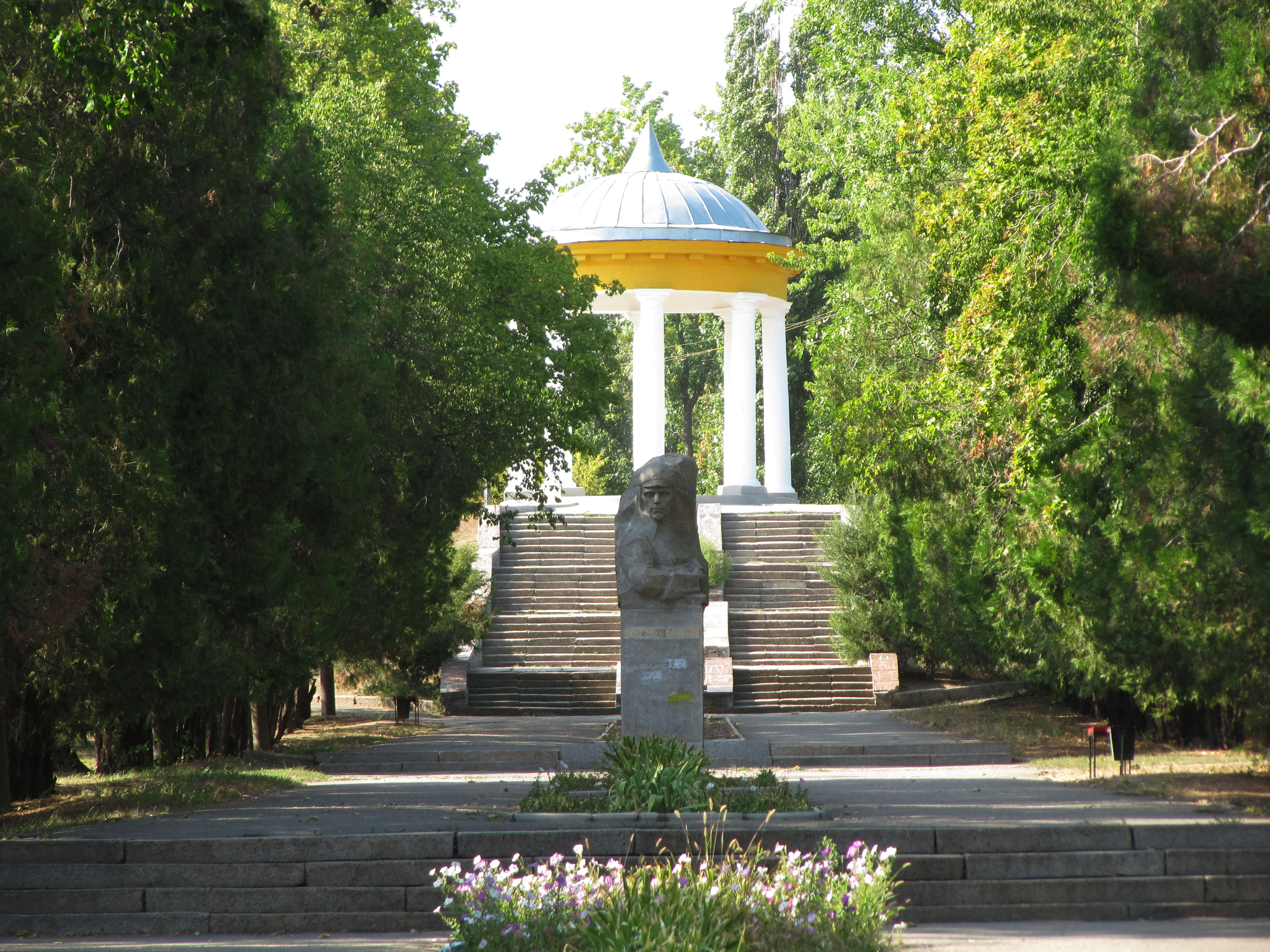 Вознесенськ, альтанка у парку Островського Миколаївська весна у Вікіпедії